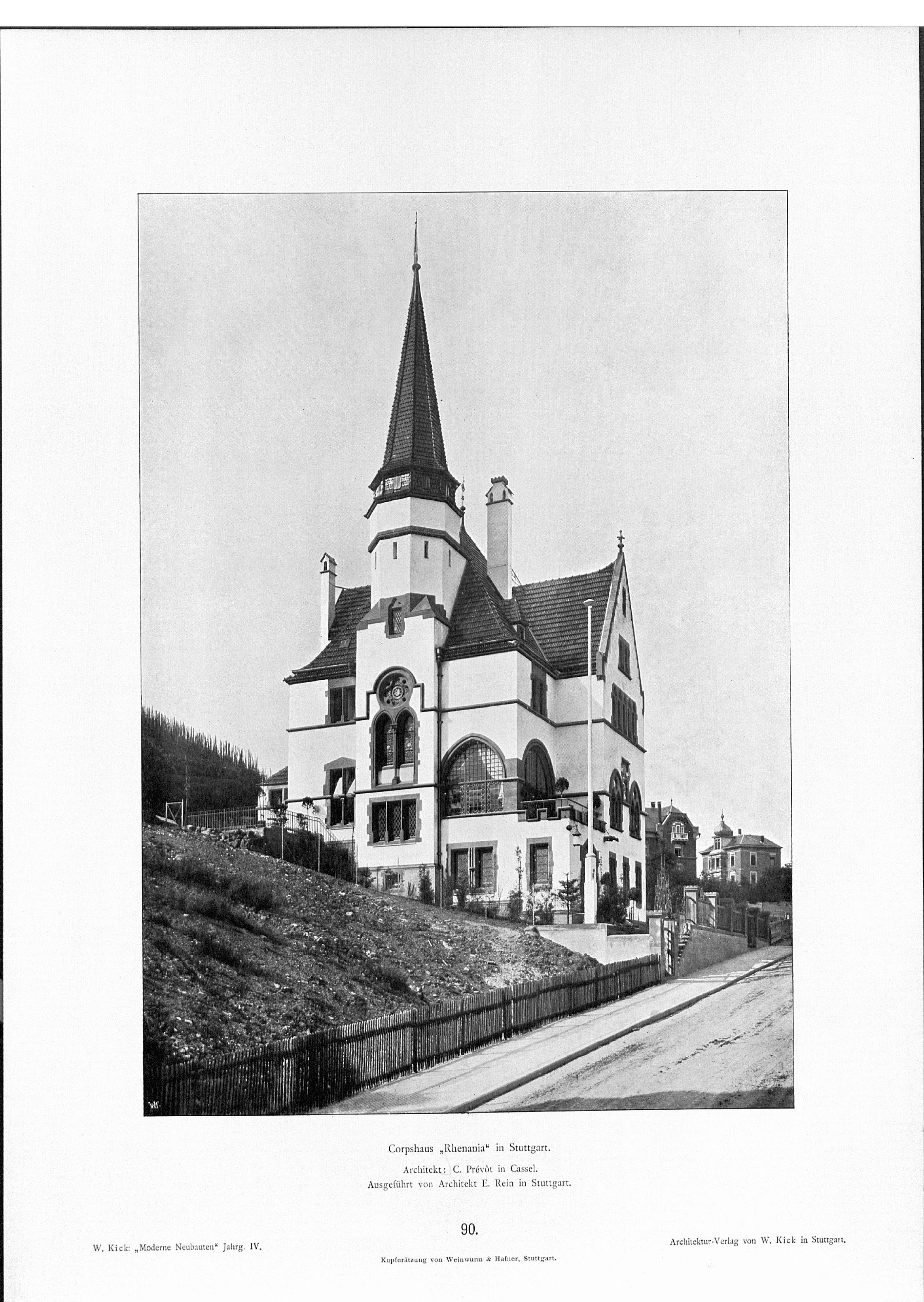 Corpshaus_Rhenania_in_Stuttgart_Architekt_C._Prévot_in_Kassel_ausgeführt_von_Architekt_E._Rein_Stuttgart.JPG